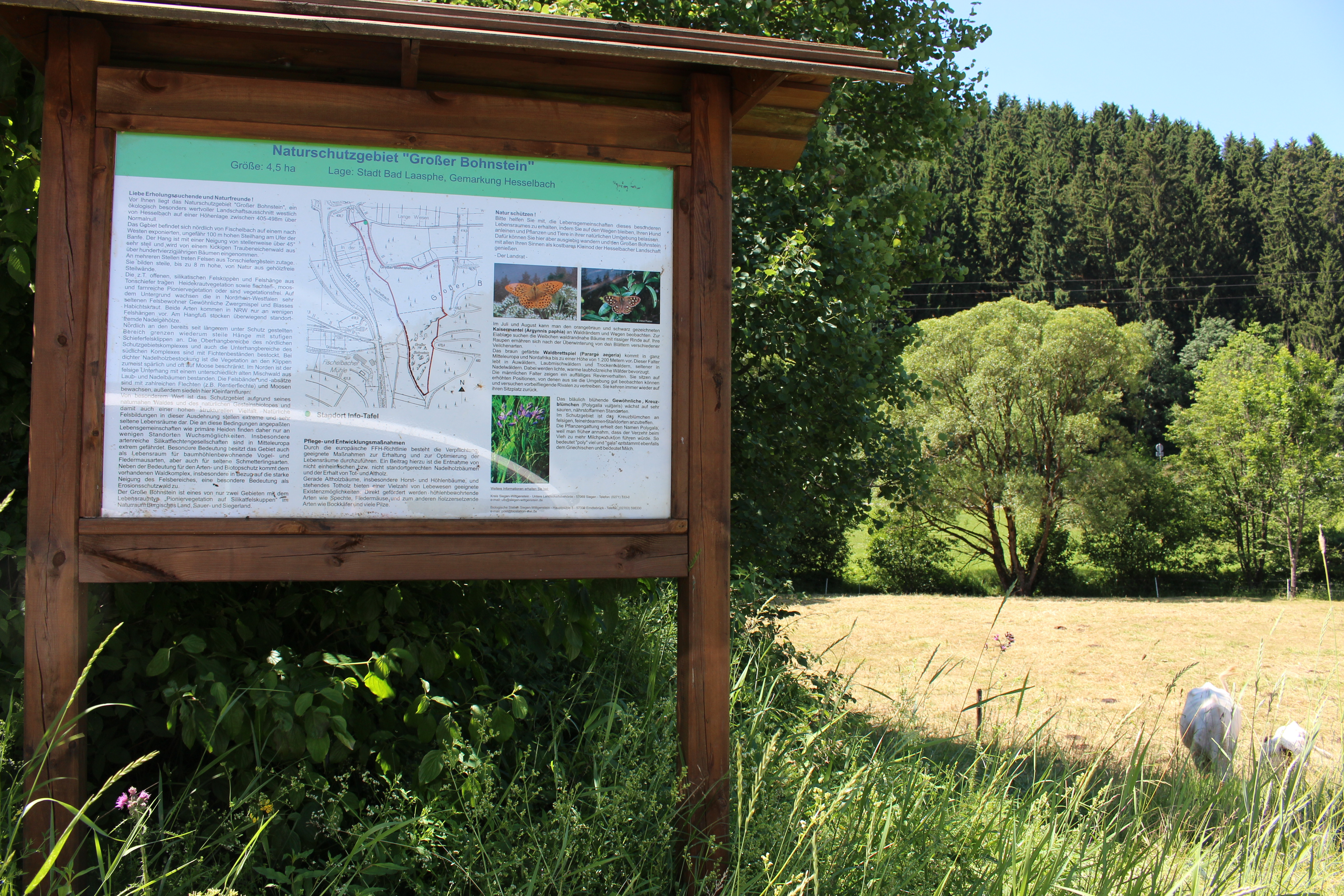 Information board of the nature reserve at the Großer Bohnstein mountain, Germany.